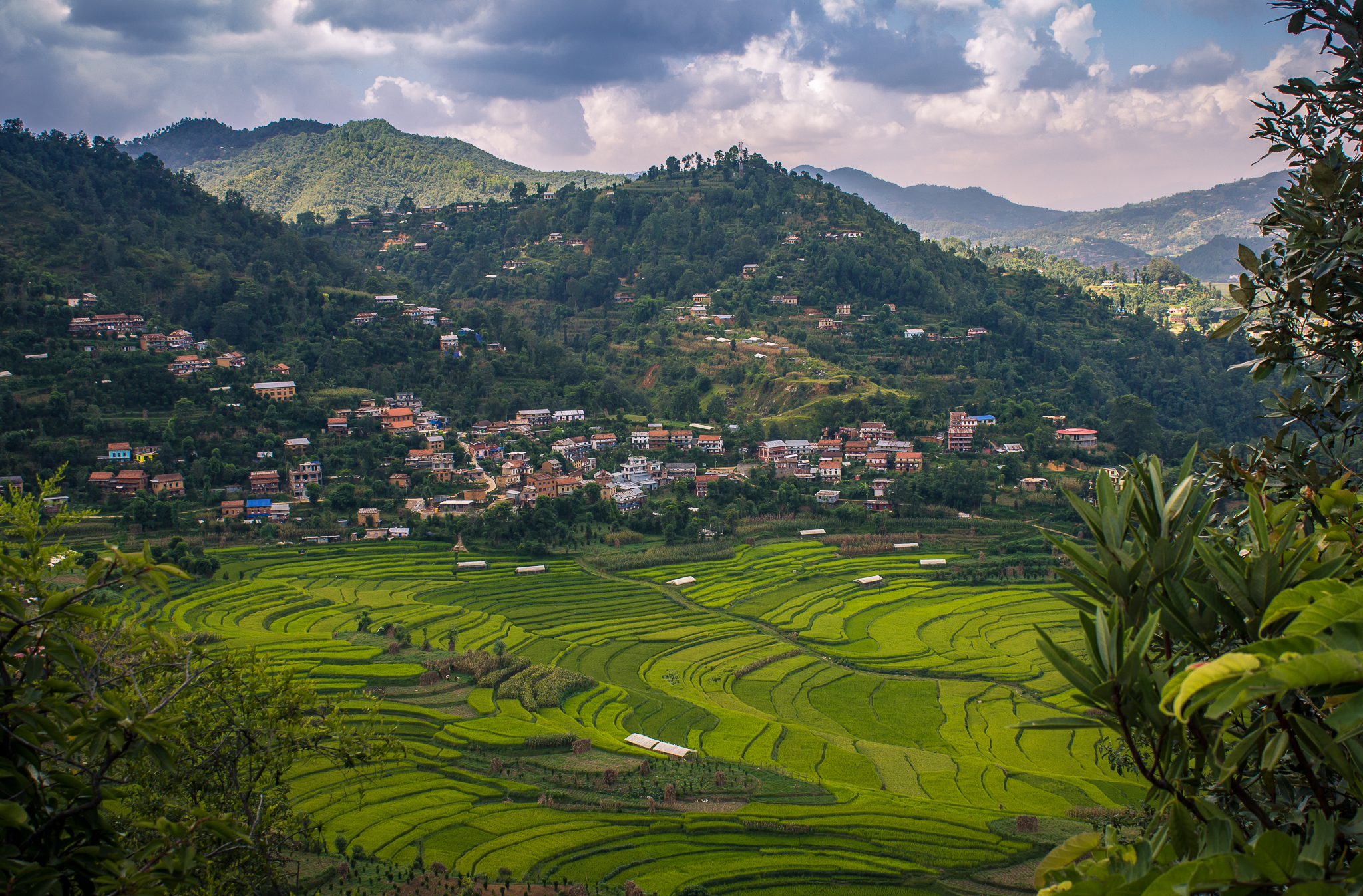 Balthali is a village in mountain region of Kavrepalanchok District.